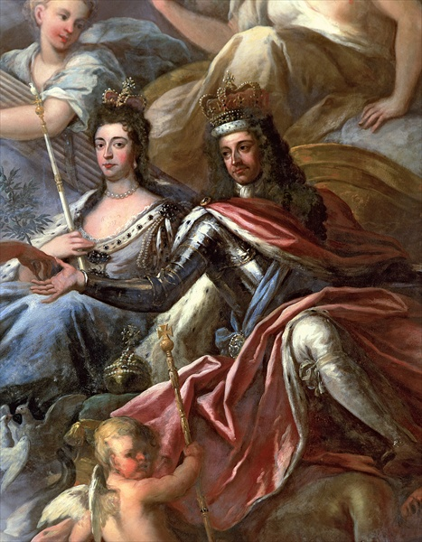 Ceiling of the Painted Hall, detail of King William III Ceiling of the Painted Hall, detail of King William III (1650-1702) and Queen Mary II (1662-94) Enthroned, 1707-14 (see 208087), Thornhill, Sir James (1675-1734) / Royal Naval College